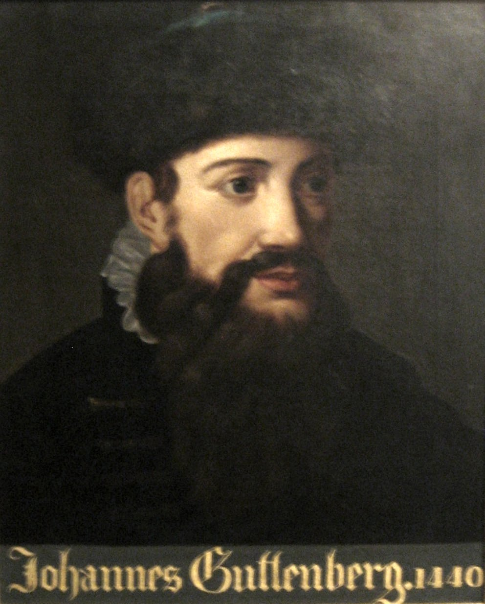 Anonymous portrait of Johannes Gutenberg (1400-1468), dated 1440